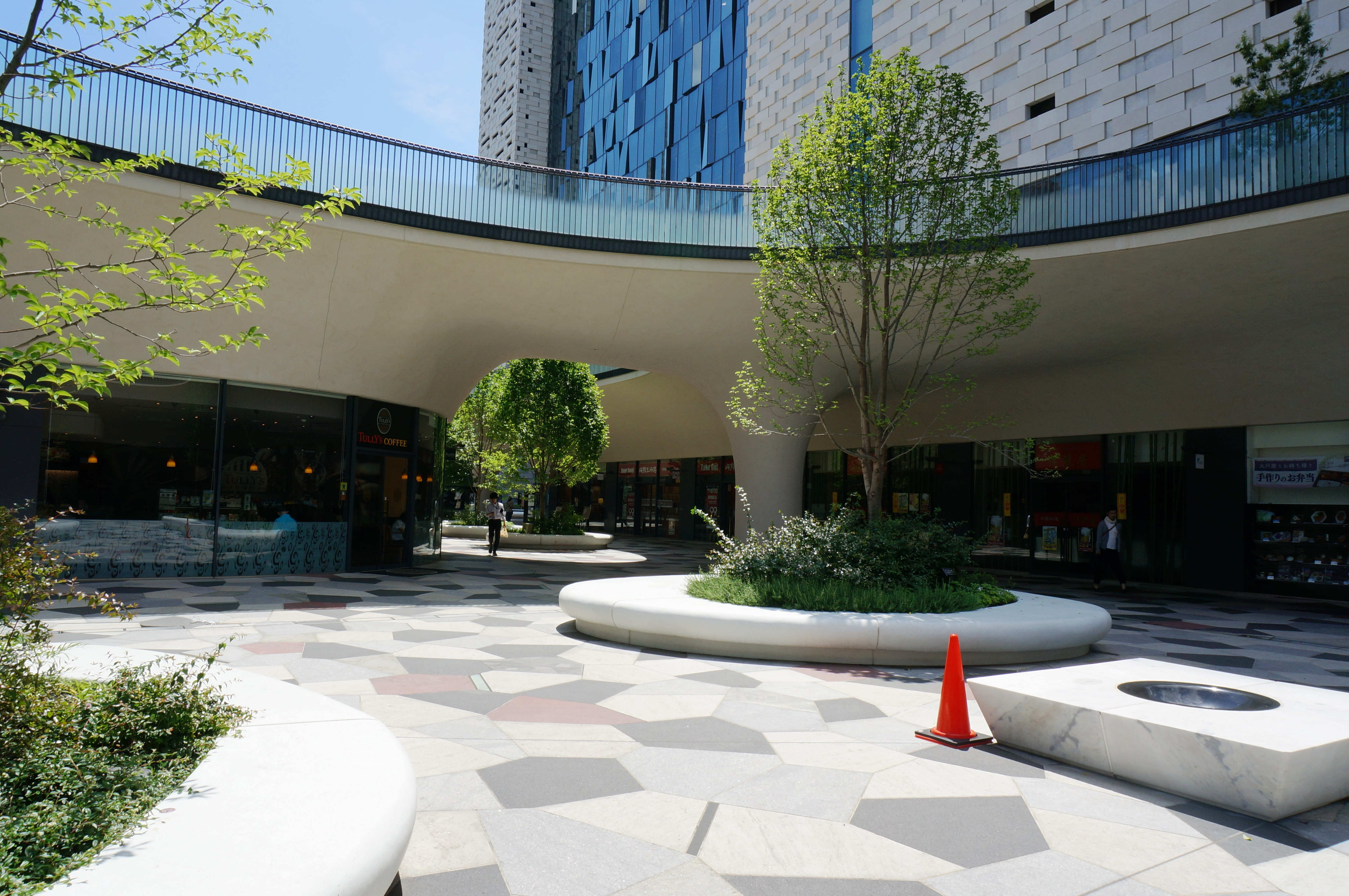 sunken garden in shinjuku eastside